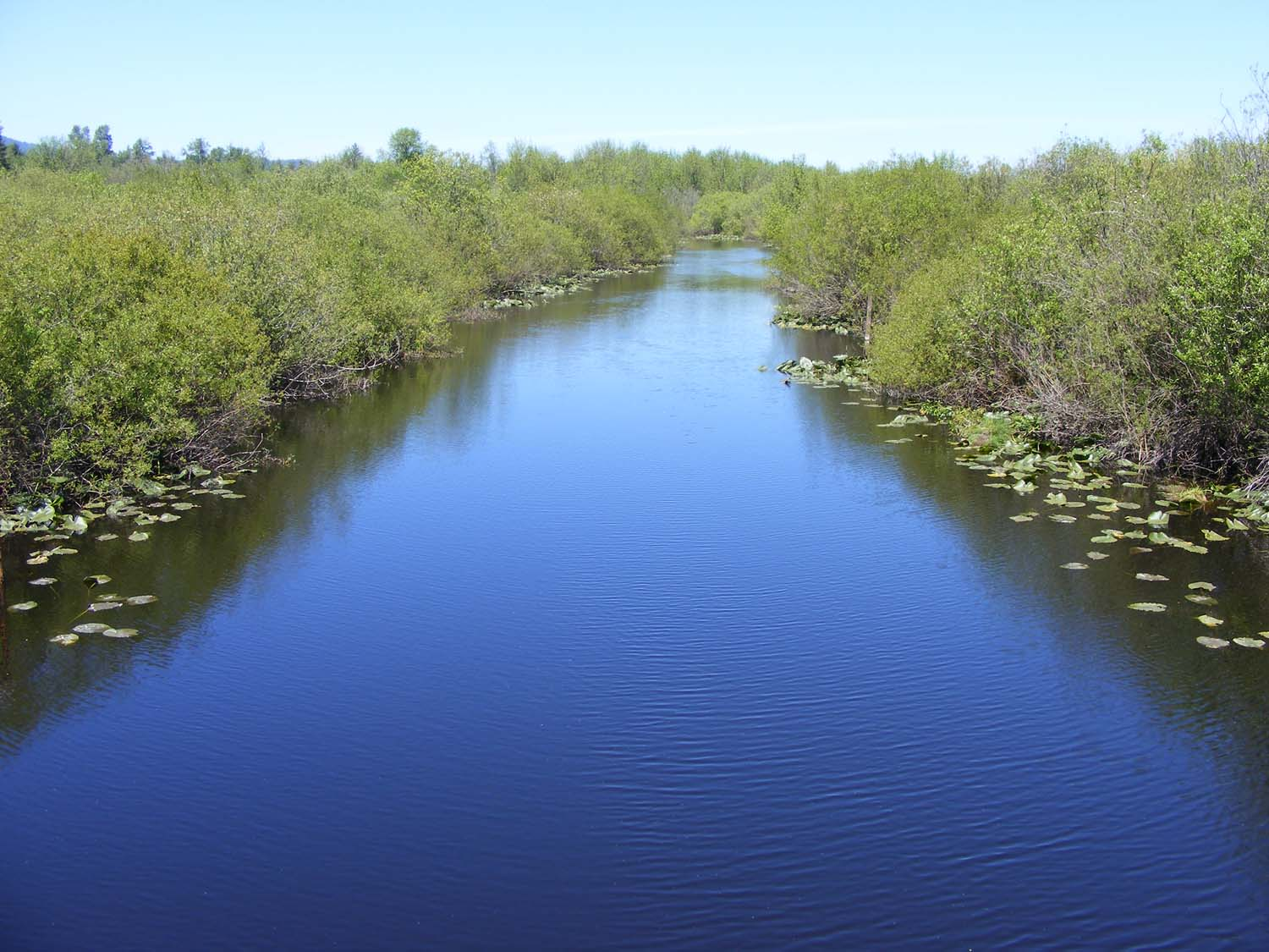 Black River, Thurston County, Washington